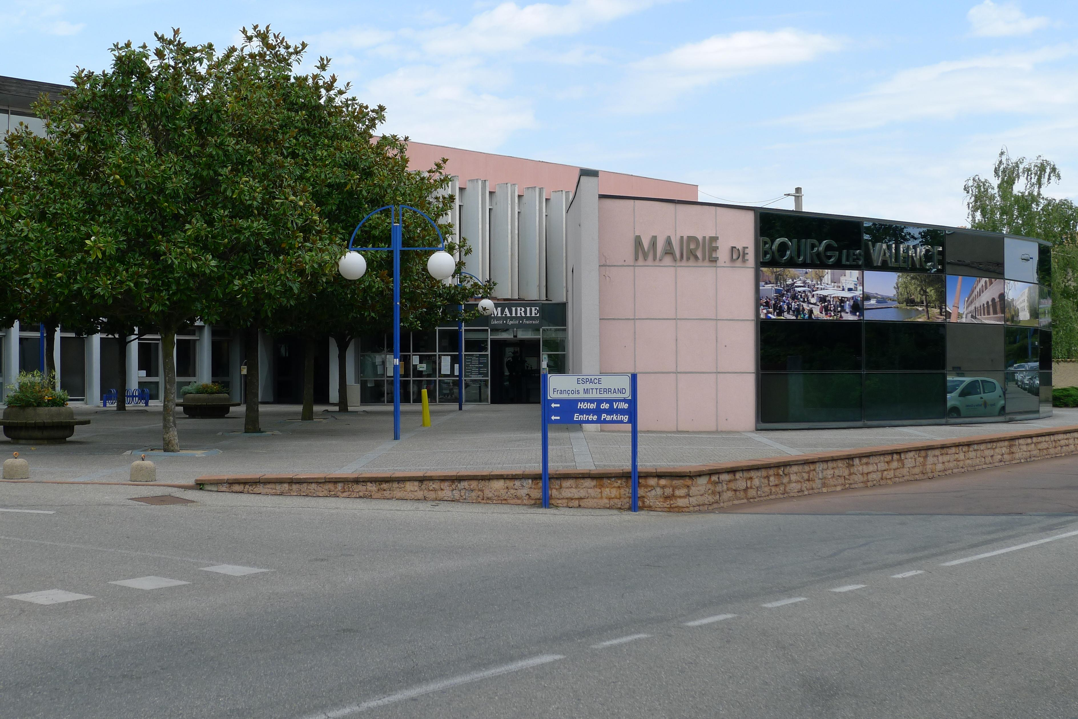 Town Hall of Bourg-lès-Valence - Drôme - France